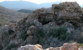 First settlement site of the mining town of Globe — in the Pinal Mountains, Gila County, Arizona.